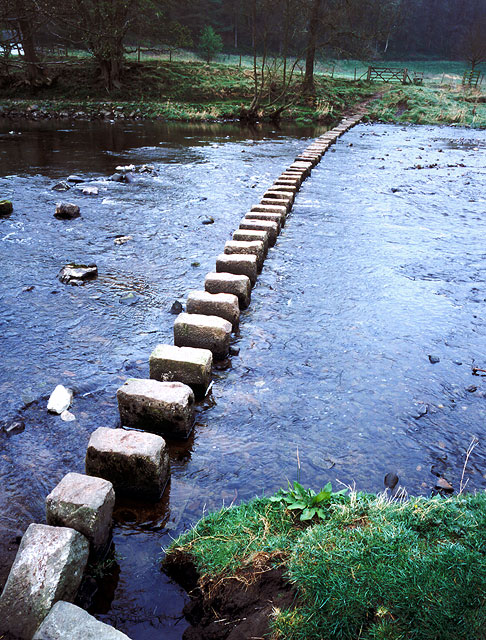 River Hodder at Whitewell. Looking across to the north bank from behind the Inn.